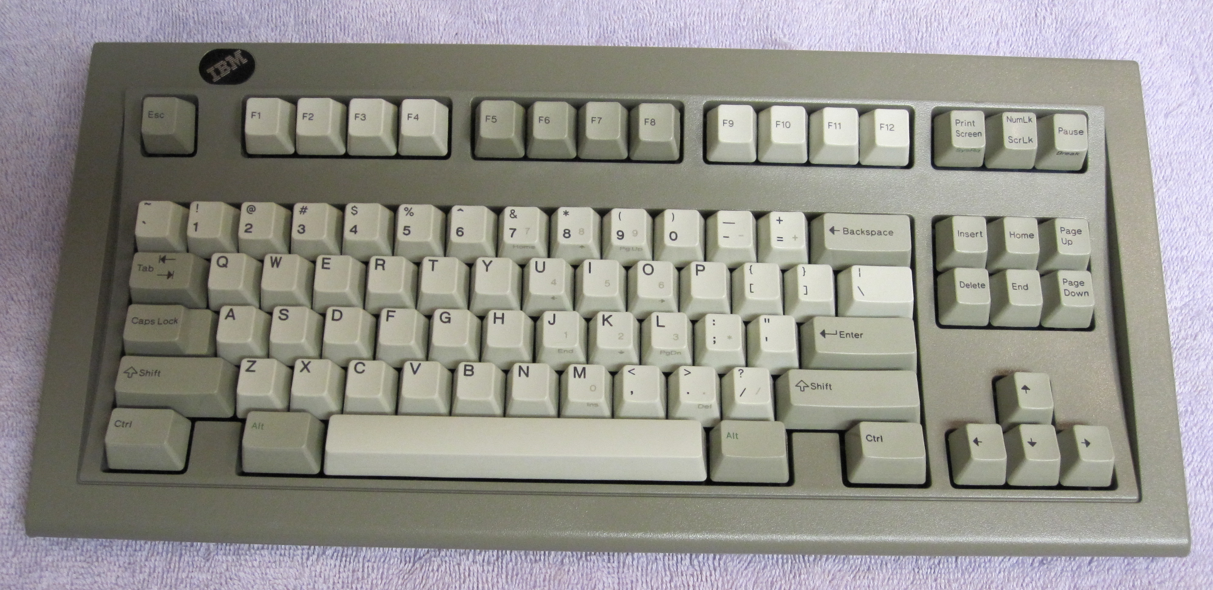 Industrial IBM Space Saving Keyboard Model M